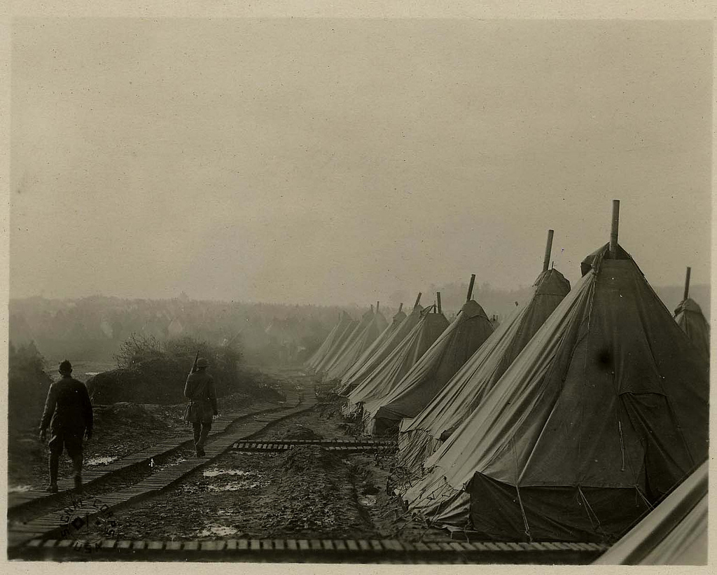 Pontanezen Camp, Lambézellec, Brest, Finistere, France. Tents. 02/07/1919. World War 1. (Digitally altered for contrast.) Selected by Kathleen.